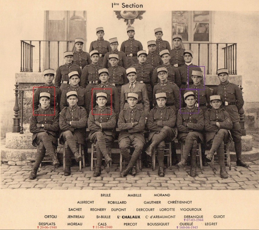 122e saint cyr marechal lyautey 1935-1937